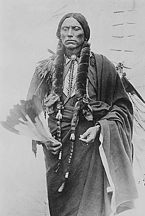 Chief Quanah Parker of the Kwahadi Comanche